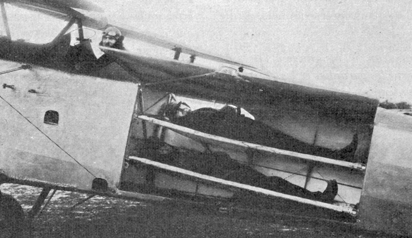 Breguet 14 ambulance photo from L'Aéronautique October 1921